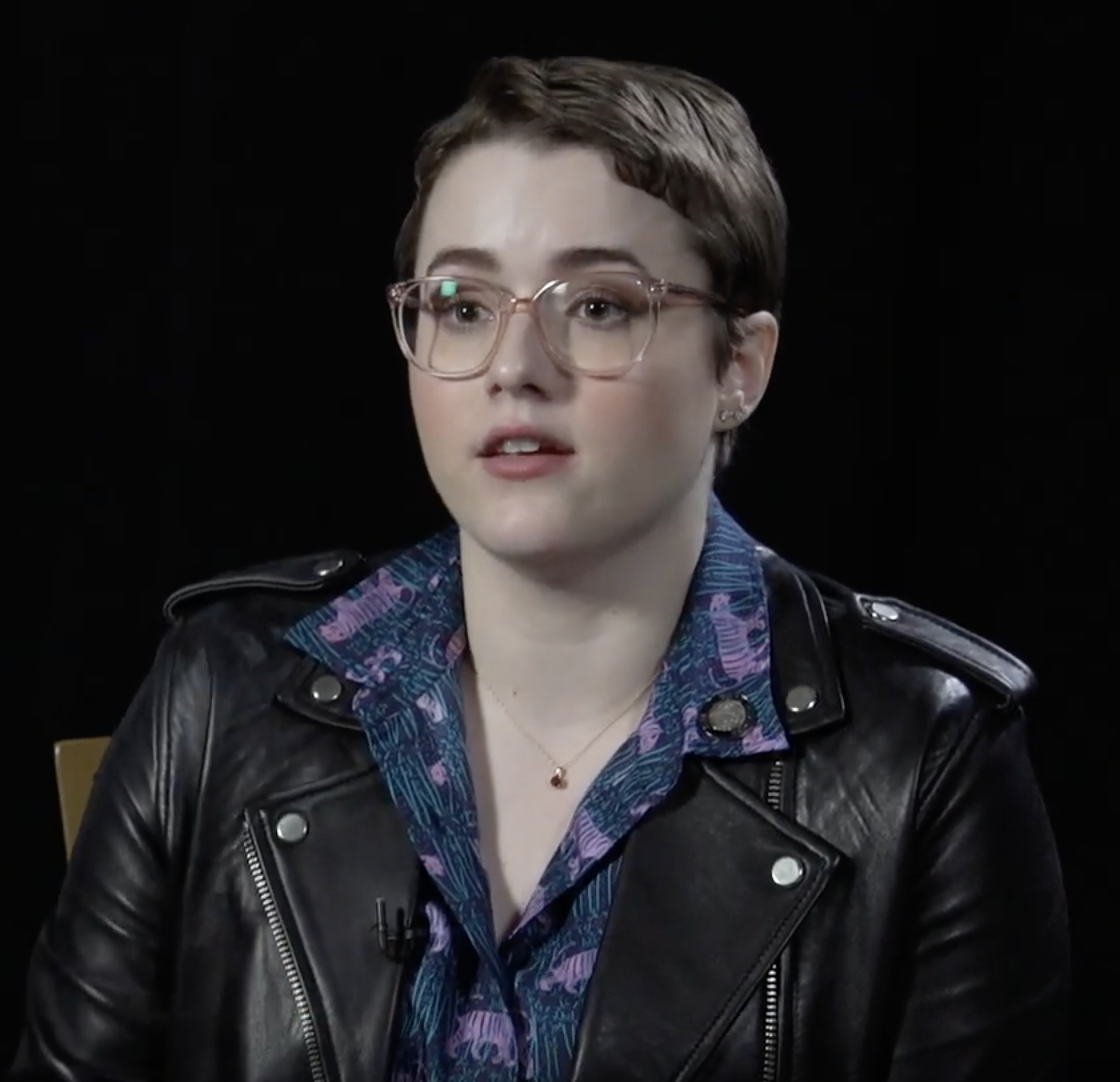 Caitlin Kinnunen interviewed by The Tony Awards in 2019